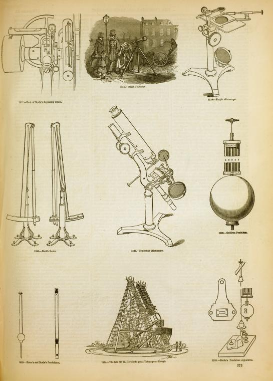 From Charles Knight's Pictorial Gallery of Arts, England, 1858. Examples of the contemporary optical devices available for laboratory work.